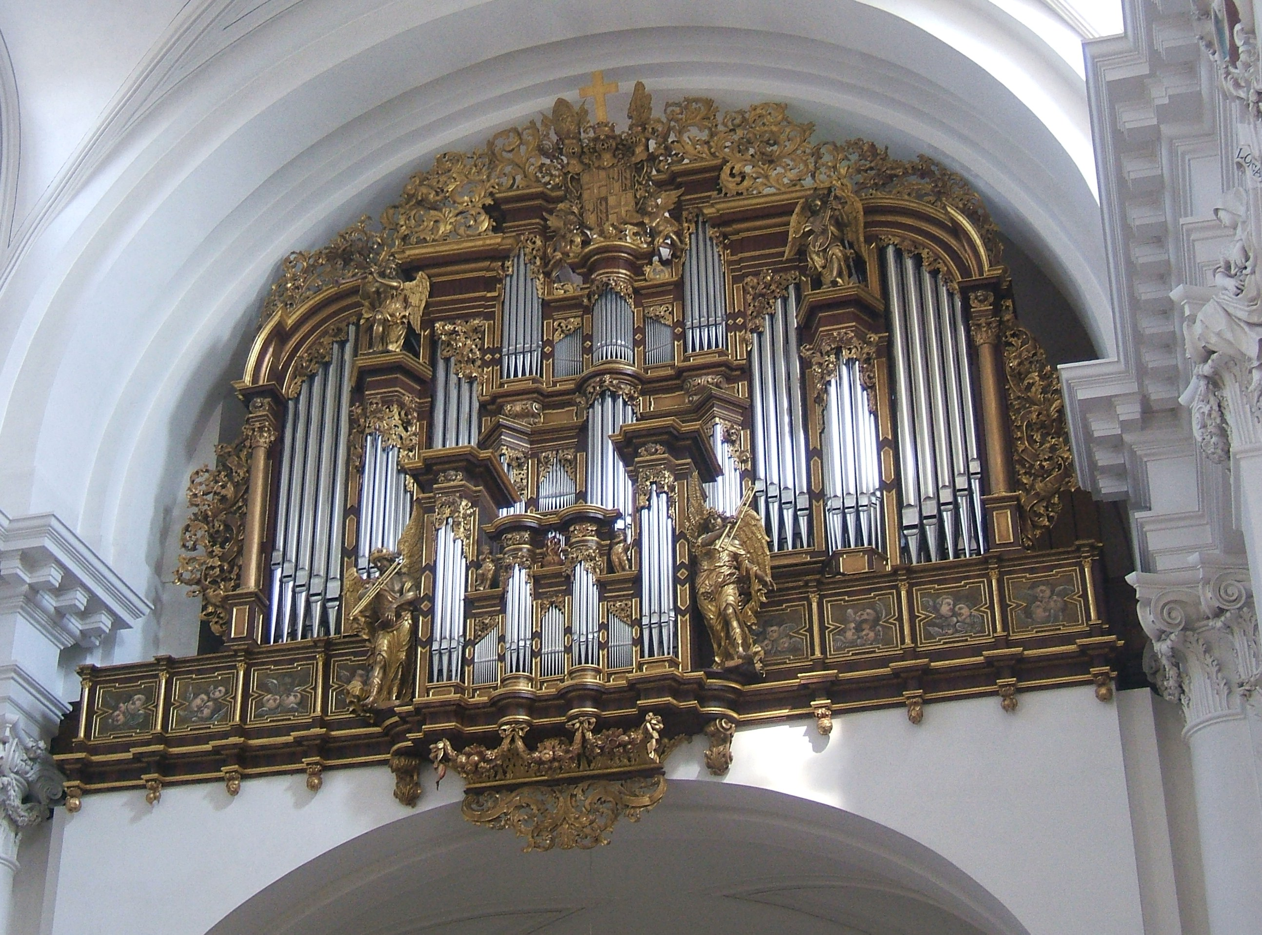 Pipe organ in Fulda Catehdral.